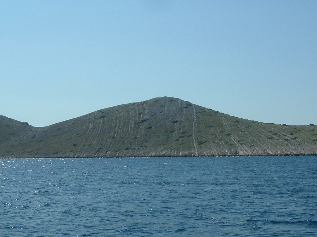 Kornati in May 2003 year.